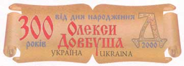 Stamp of Ukraine